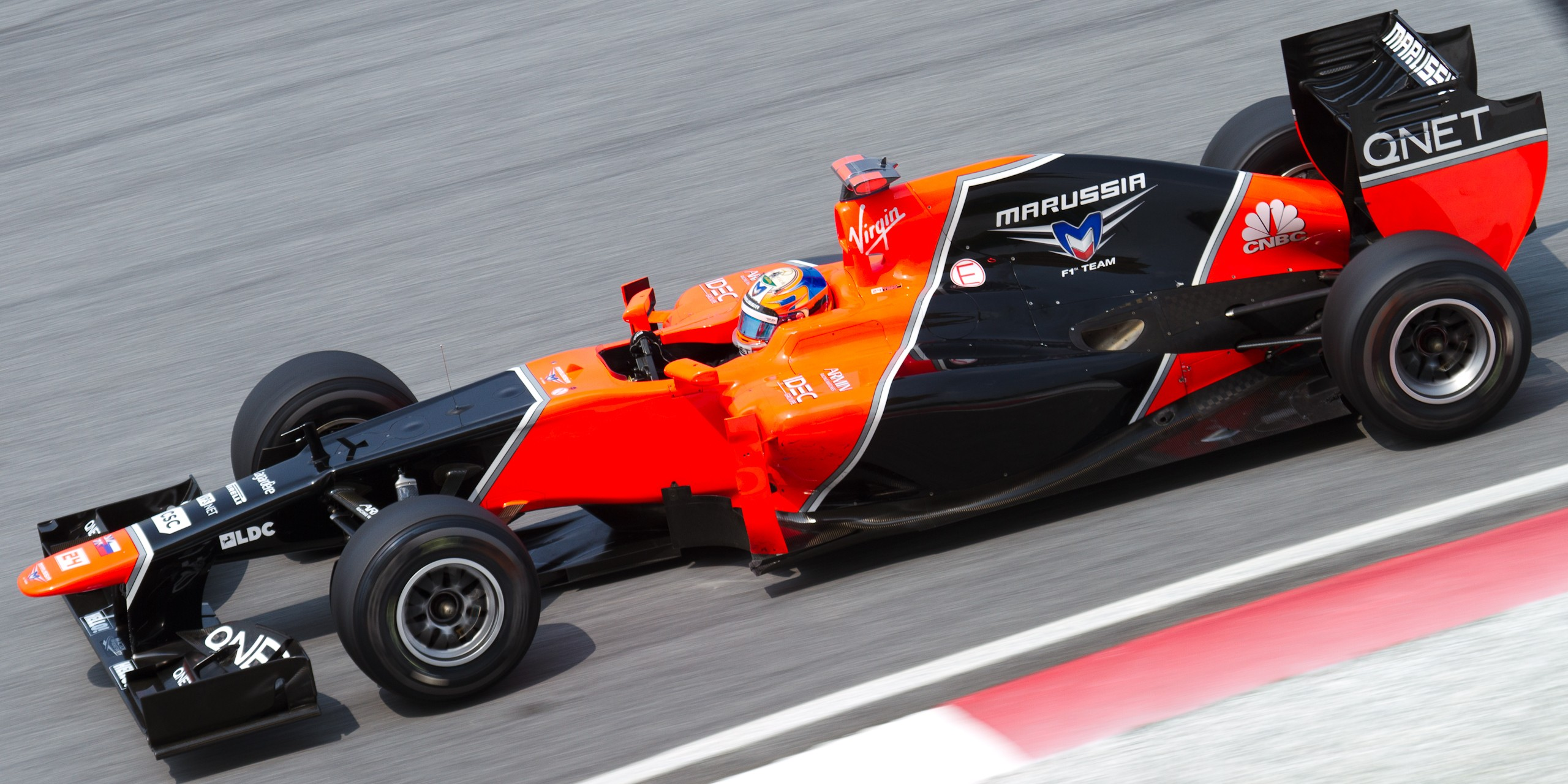 Formula One 2012 Rd.2 Malaysian GP: Timo Glock (Marussia) during the second practice session on Friday.